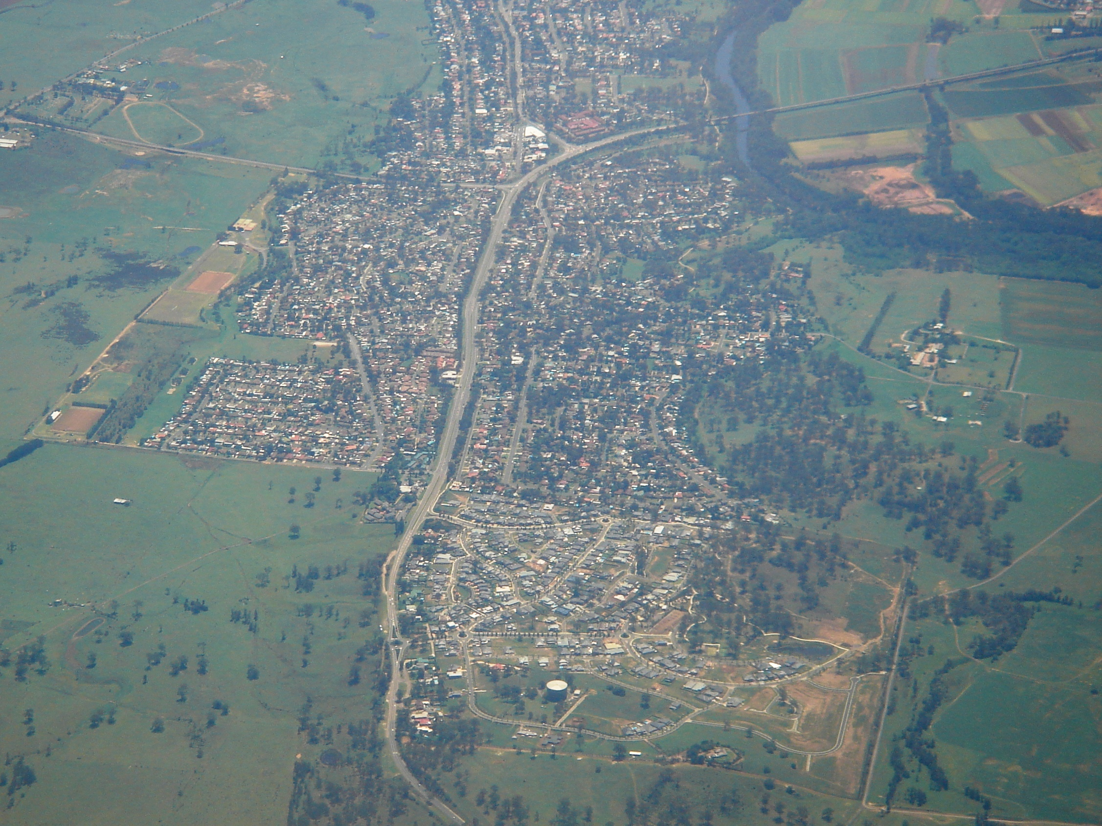 Camden South, a suburb of Sydney in New South Wales, Australia. Aerial view from a commercial airliner.